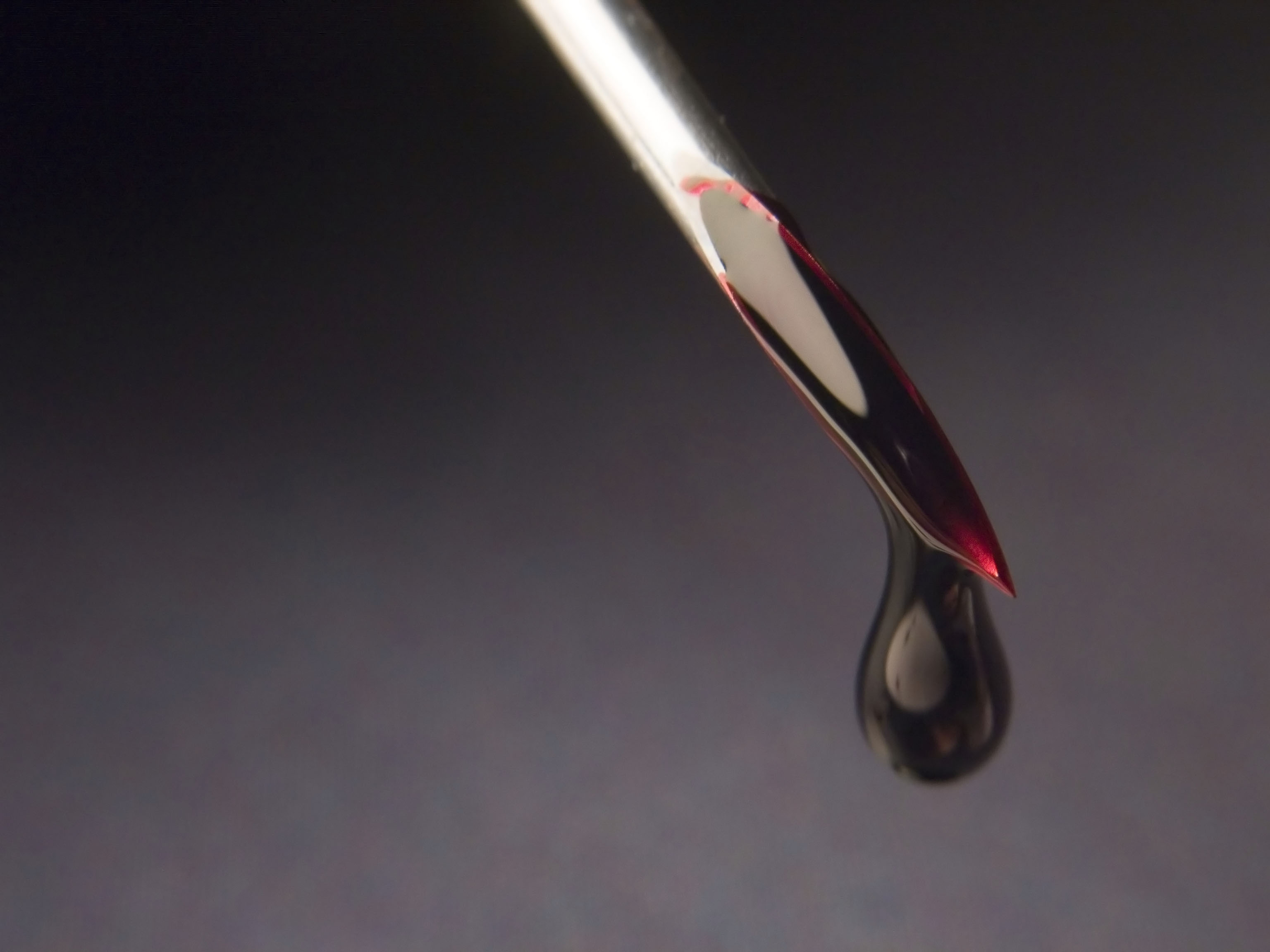 Dedicated to the red bic pen that gave it's life for this picture. An expired horse hypodermic needle.